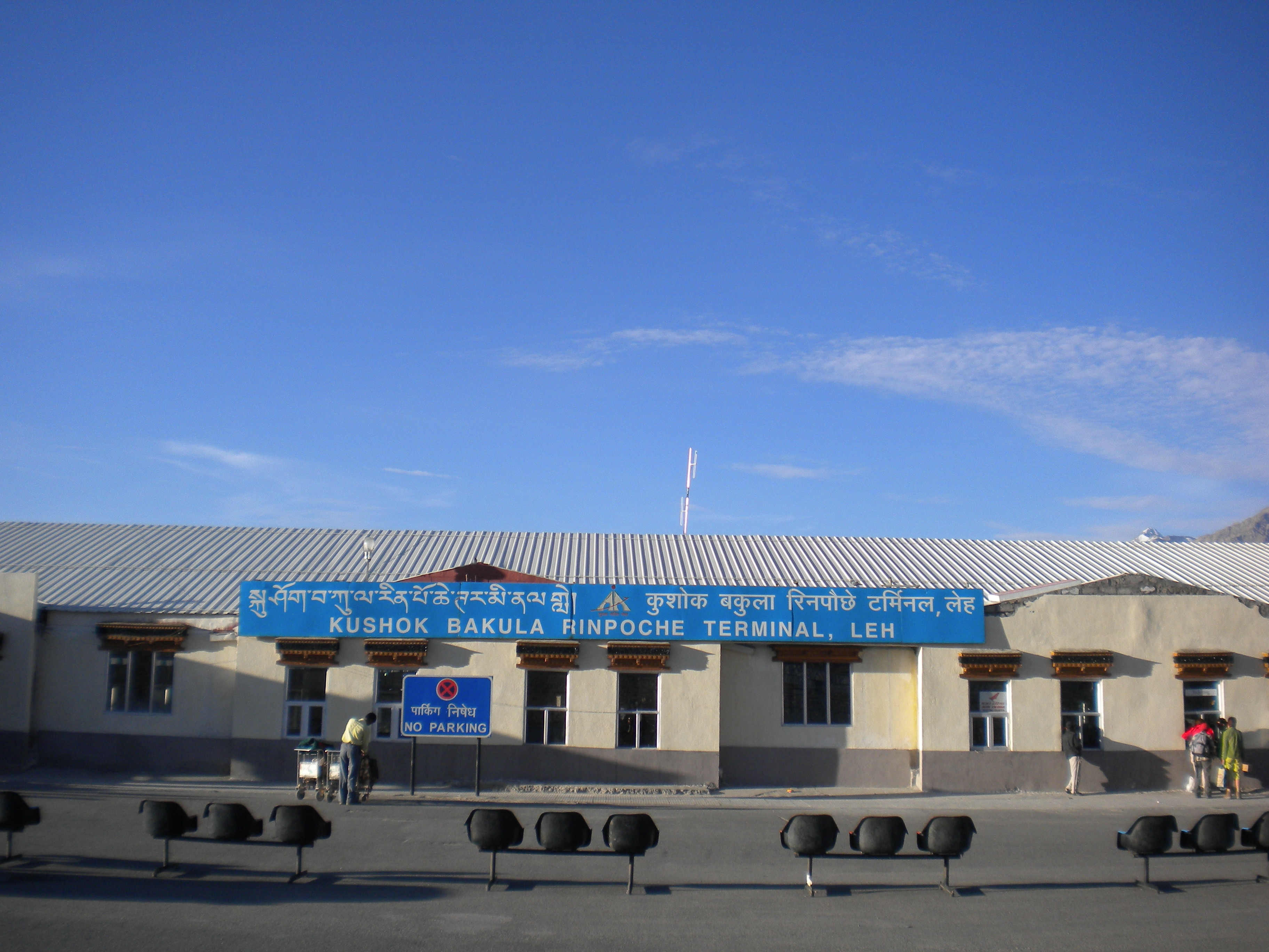 View from outside the IXL Airport "Kushok Bakula Rinpoche Terminal", named after the Venerable Kushok Bakula Rinpoche.